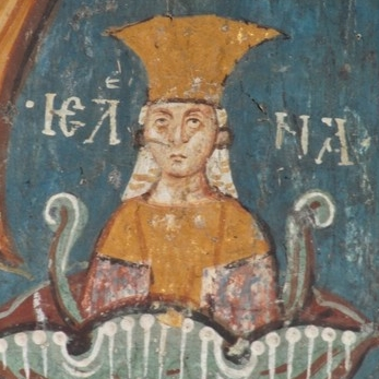 Detail of fresco Loza Nemanjića,Jelena (half-sister of Dušan),Visoki Dečani,Serbia.